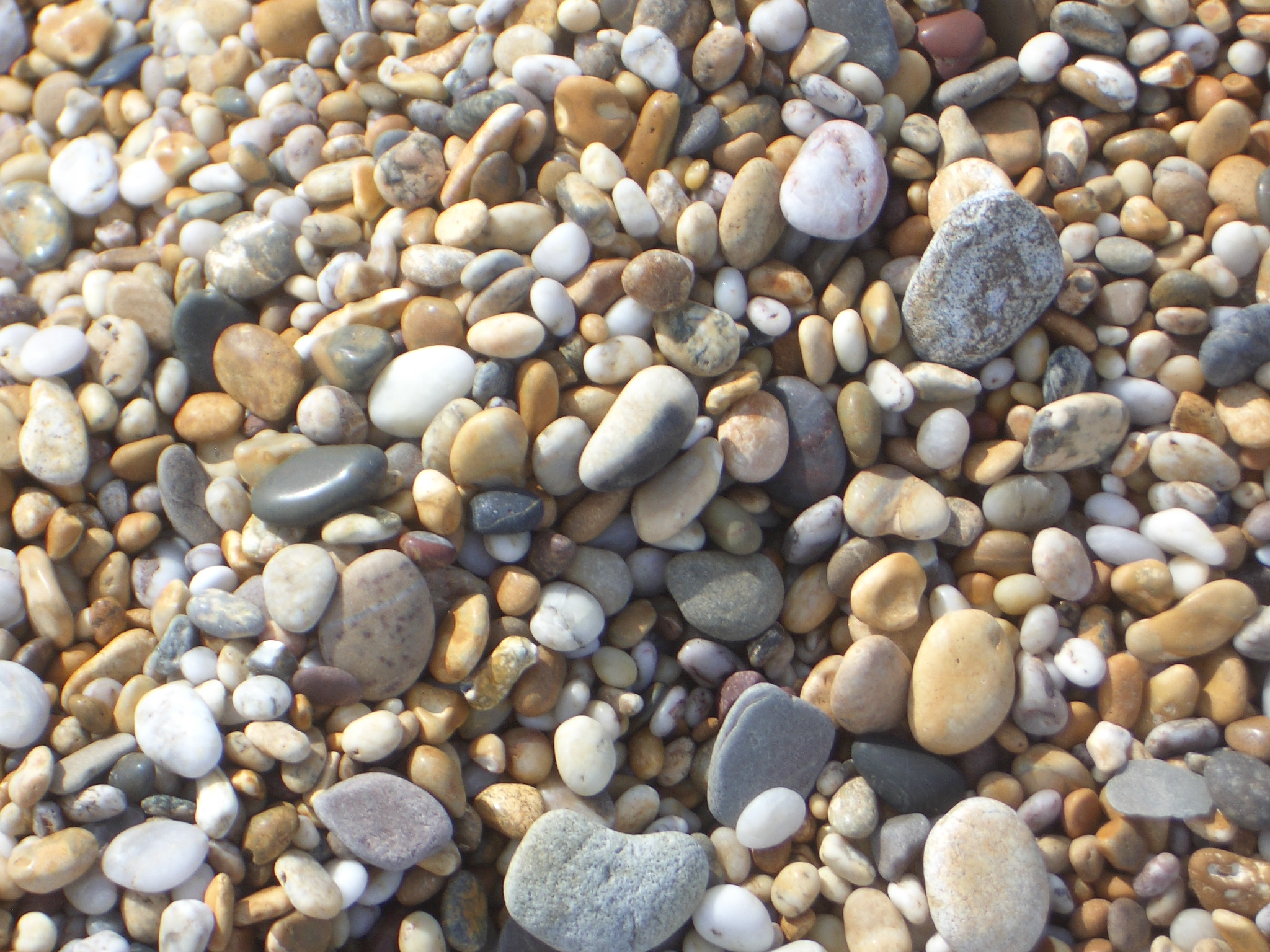 Beach at Slapton Sands, Devon. Note that the beach is not actually sand, but consists of small smooth stones (pebbles) of sizes ranging from 1/4 inch to several inches